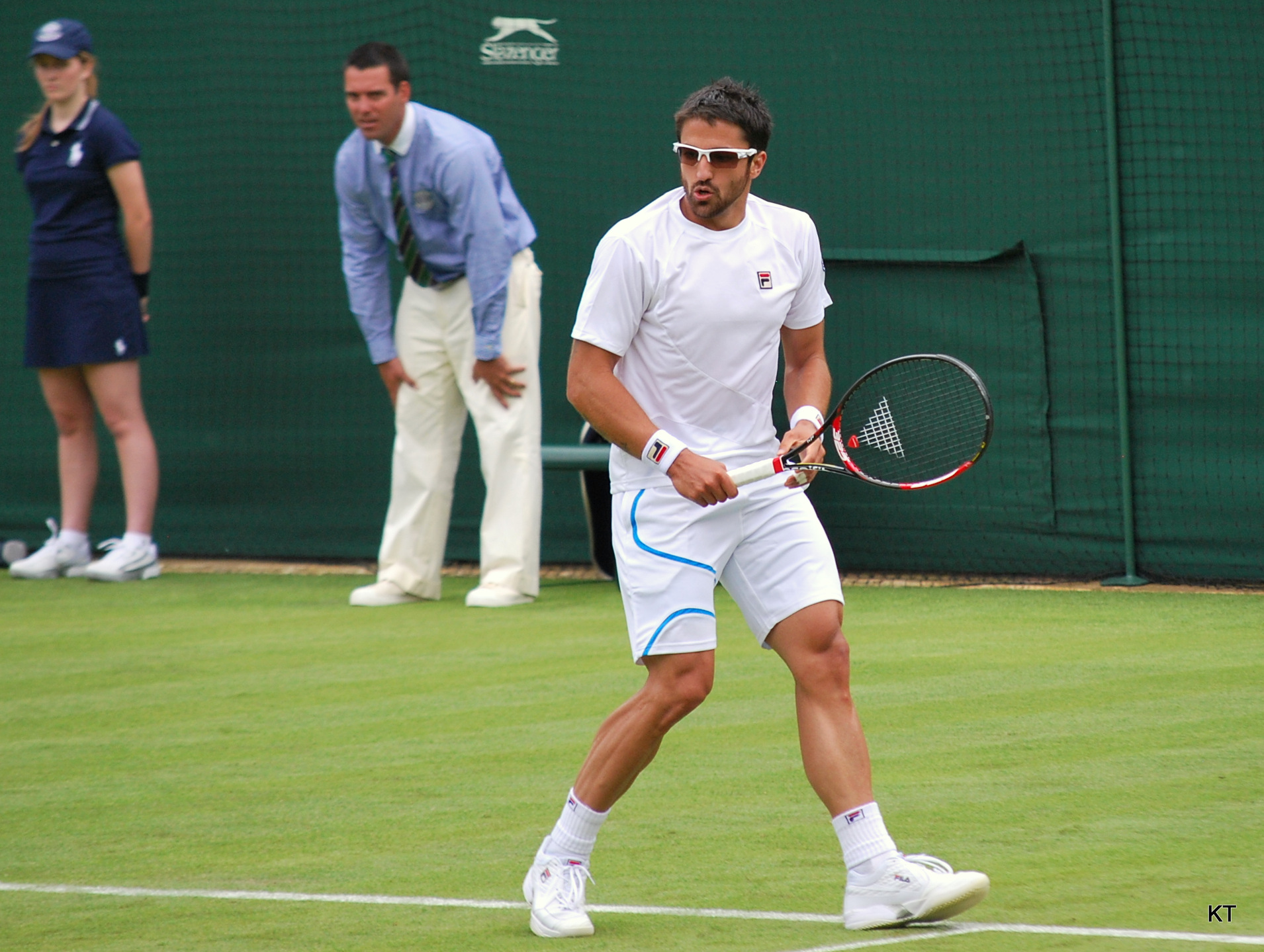 Janko Tipsarevic during his first round match with David Nalbandian, on Day 1 of Wimbledon 2012.